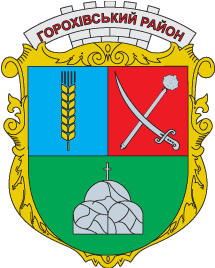 Coat of arms of Horokhiv district (Ukraine)